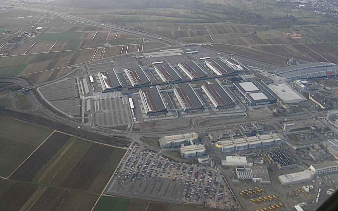 Stuttgart fair/exhibition area from a bird's view